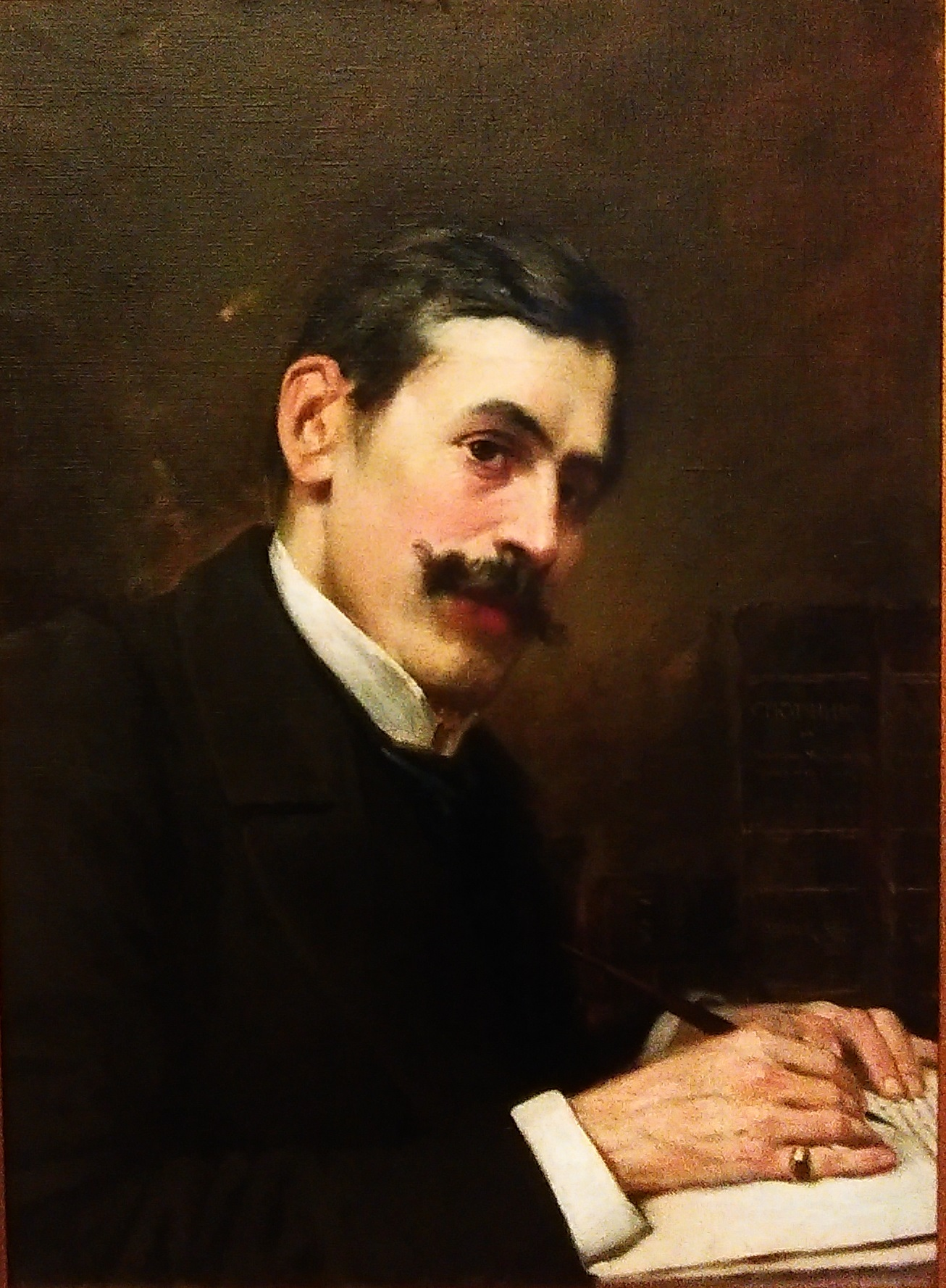 An 1904 portrait of bulgarian revolutionary Stoyan Zaimov by Ivan Mrkvicka